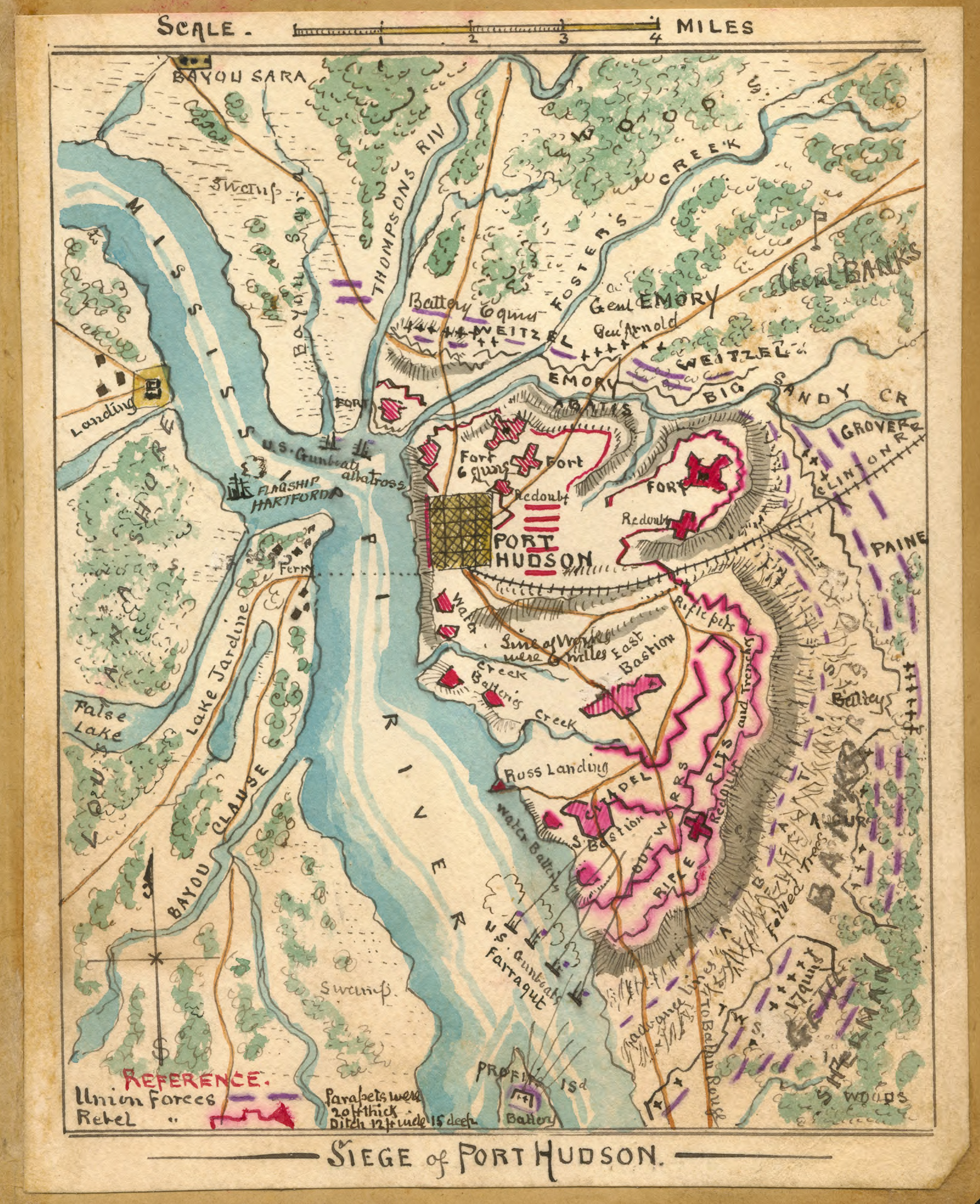 Map showing the Siege of Port Hudson between May 27th and July 9th, 1863